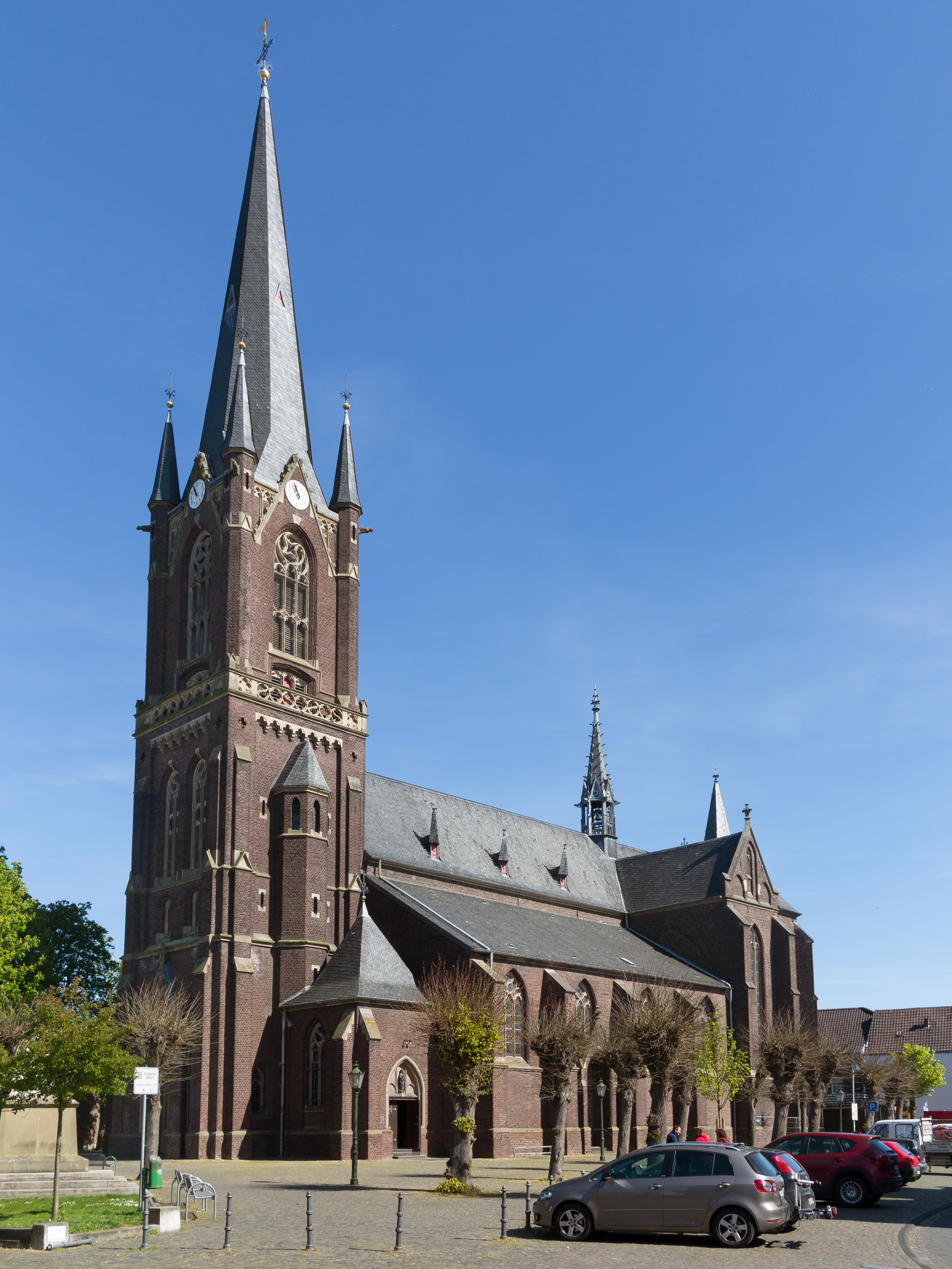 Aldekerk, church: Sankt Peter und Paul KircheThis is a photograph of an architectural monument., no. 32